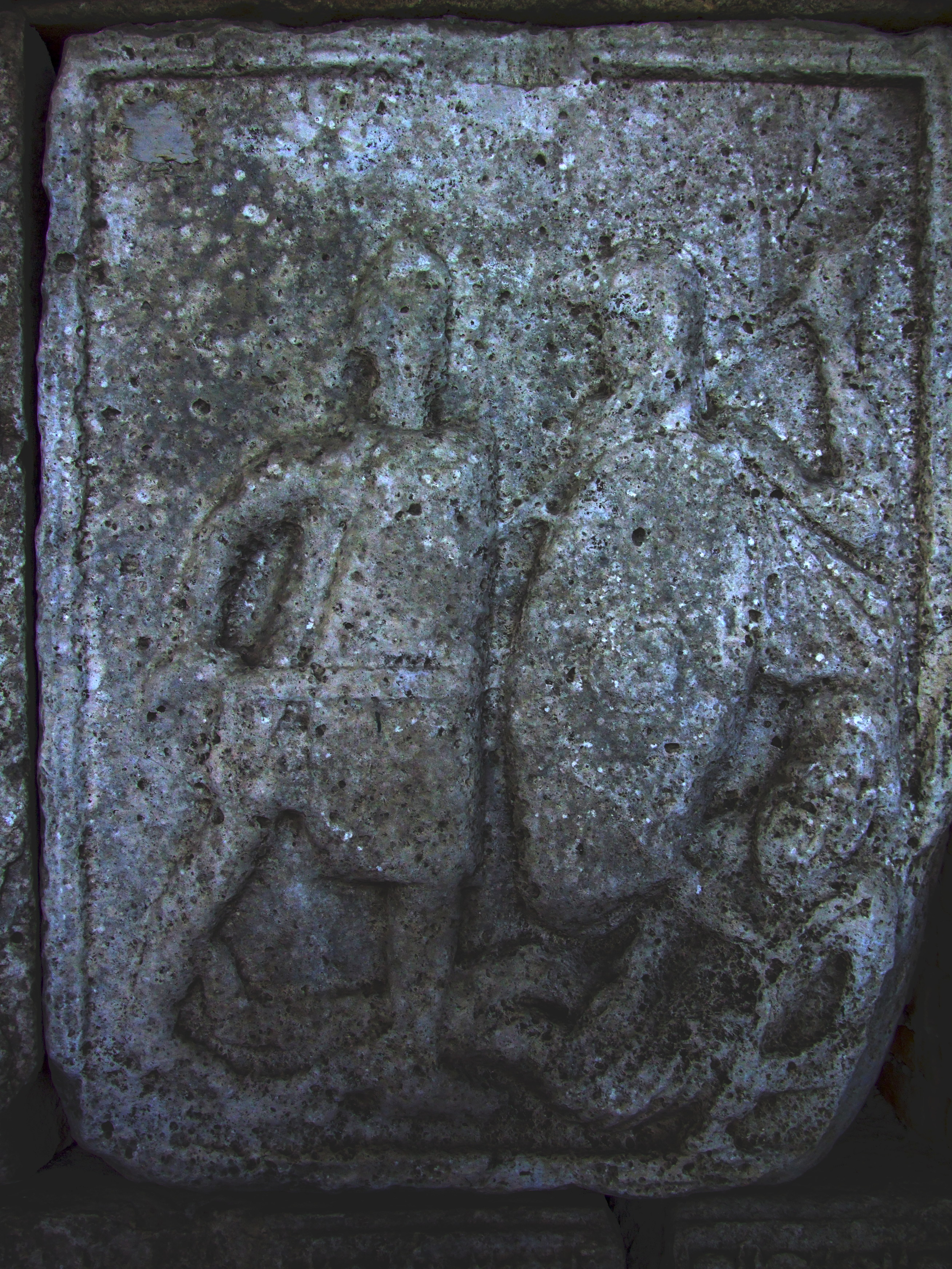 Tropeum Traiani Metope